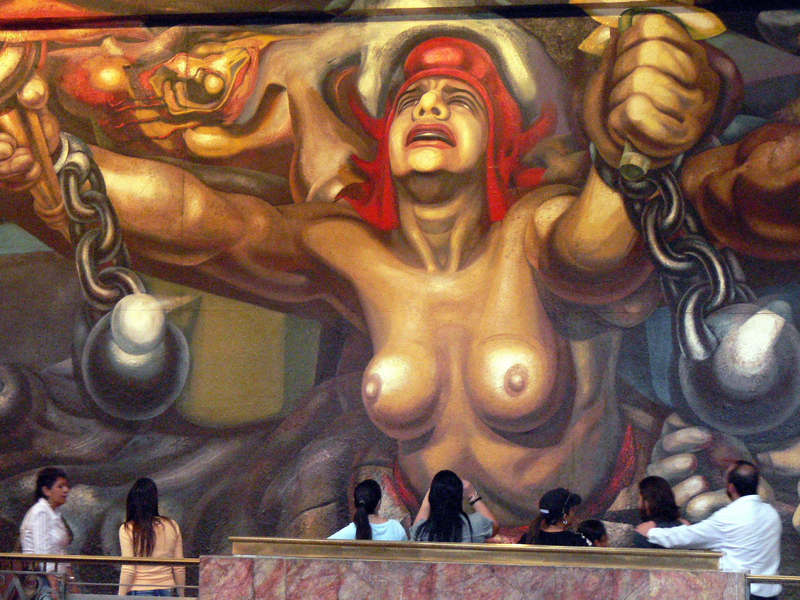 Mexico City. Palacio de Bellas Artes: Mural "La Nueva Democracia" ( 1945 ) by David Alfaro Siqueiros.